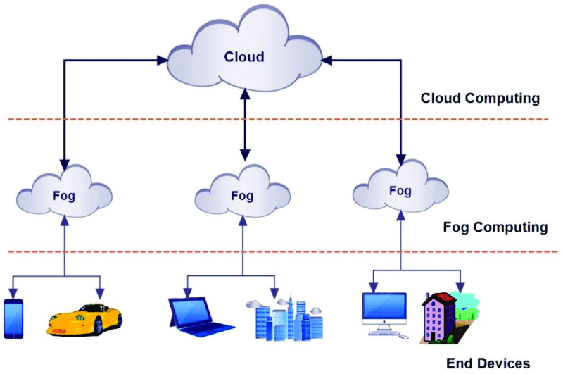 Fog Computing